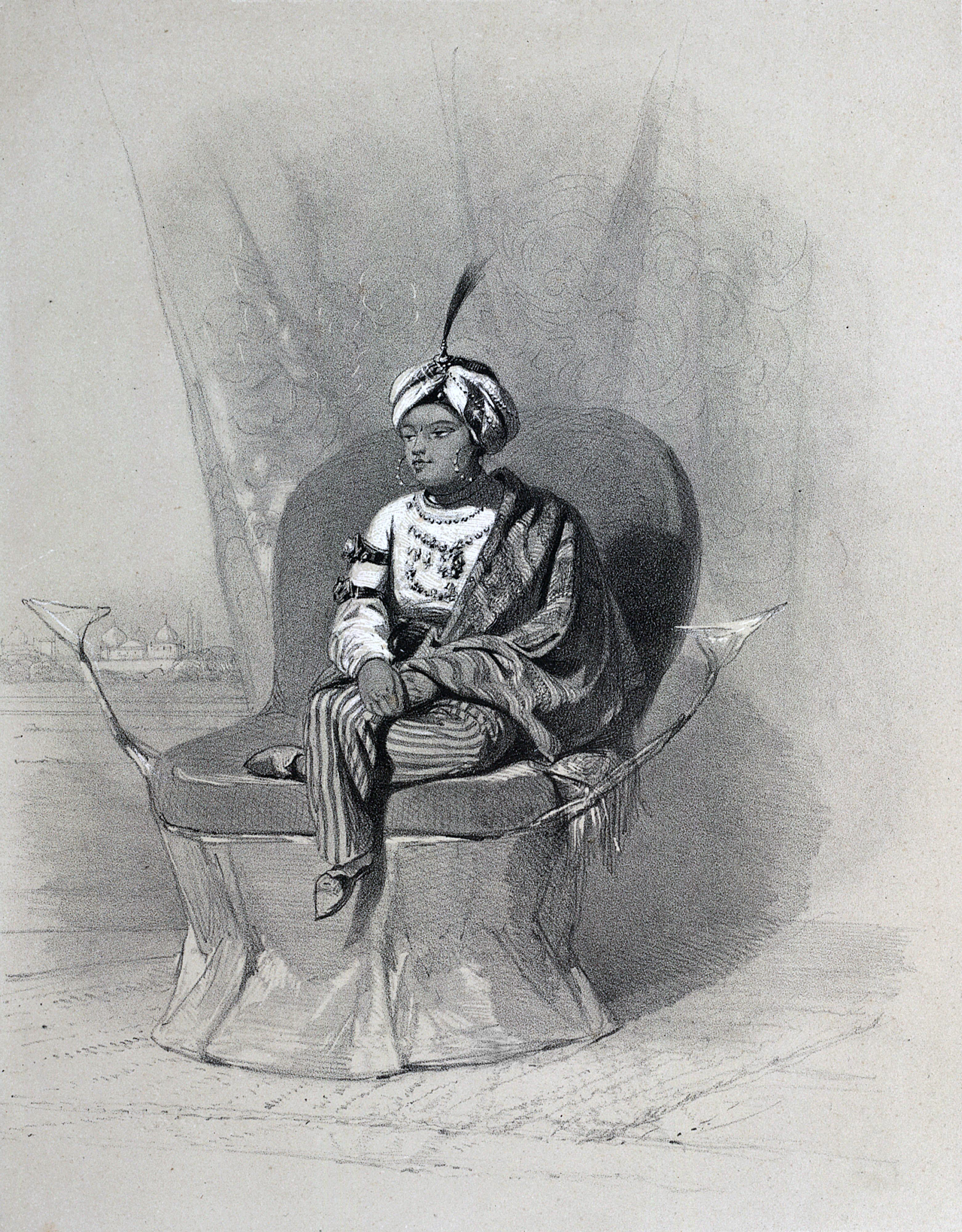 Maharaja Duleep Singh (1838 - 1893).